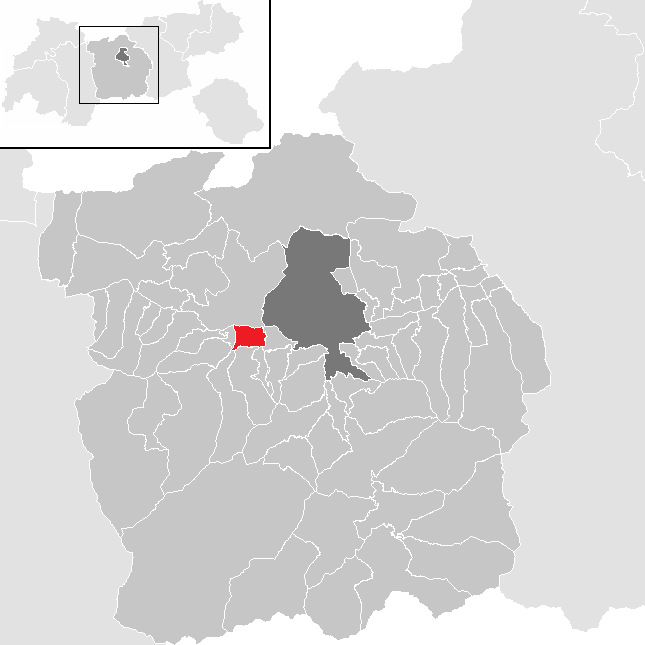 District Innsbruck Land